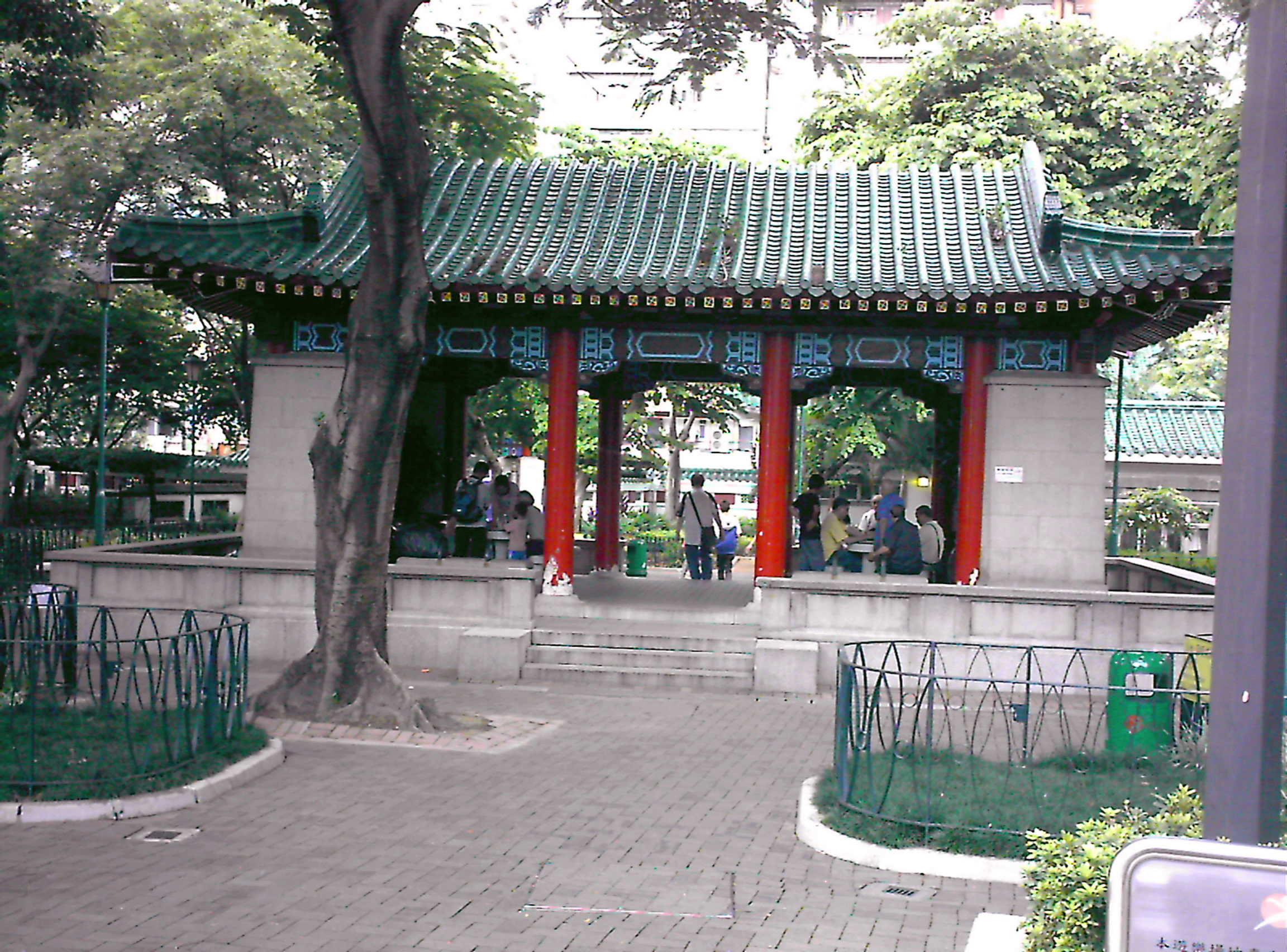 Pavilion at King George V Memorial Park, Kowloon, Hong Kong 中文（香港）: 香港，九龍佐治五世紀念公園裡的涼亭。